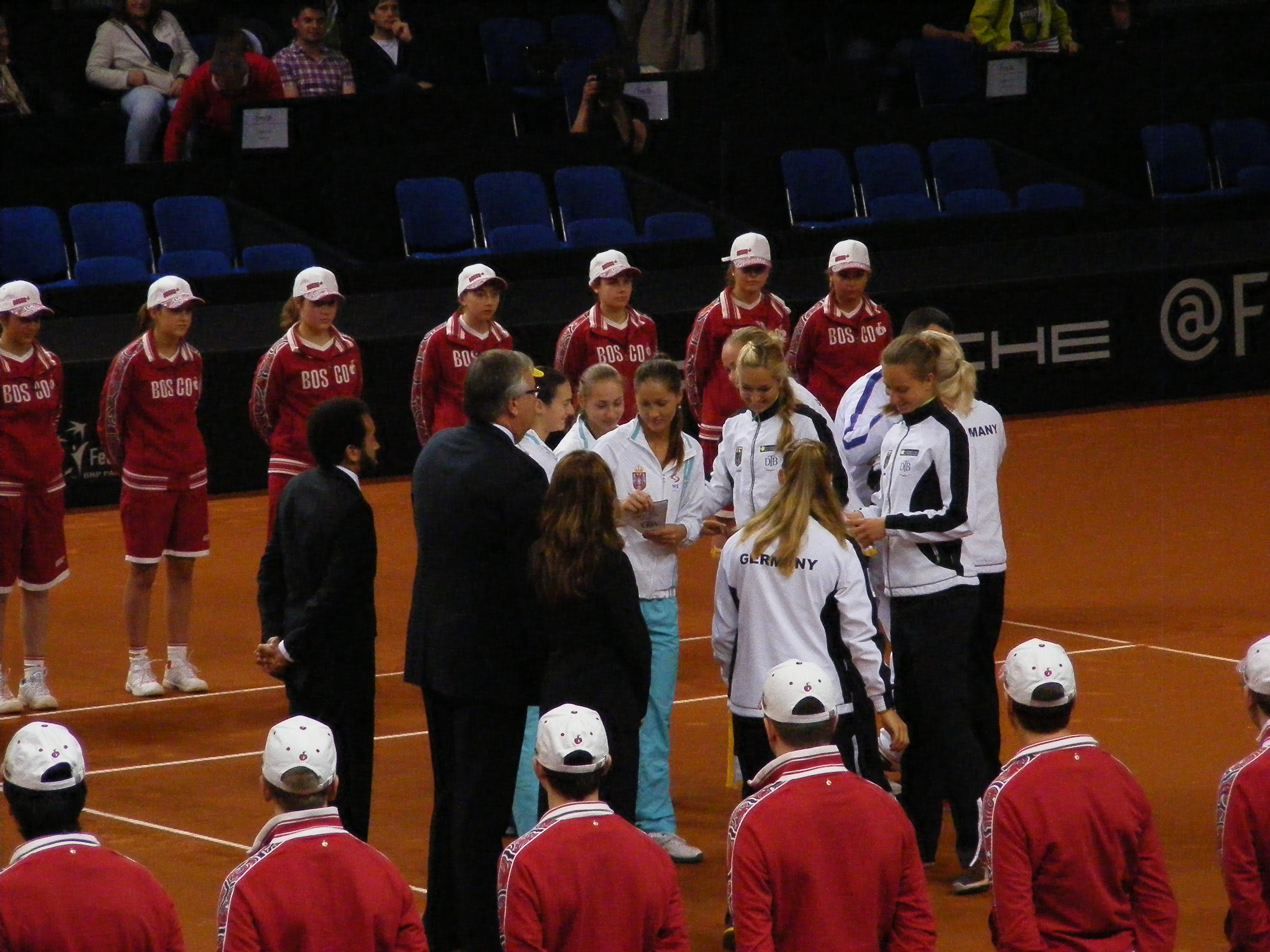 wimple exchange Fed Cup 2013 Germany vs Serbia